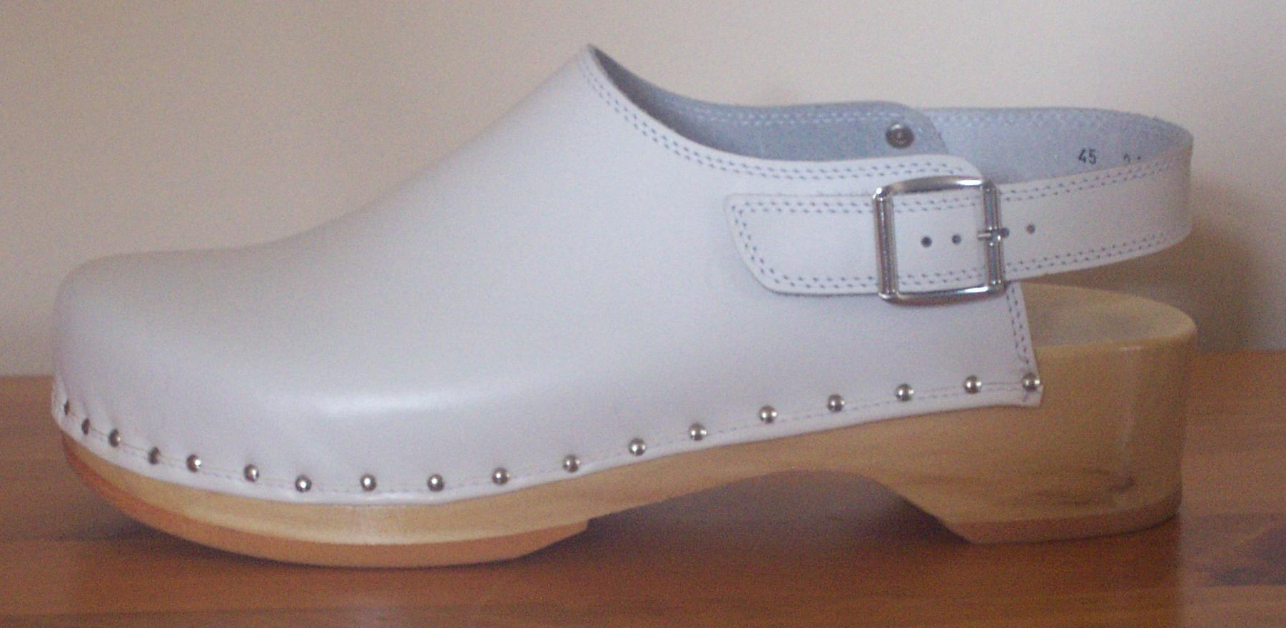 Clog with wooden sole, leather upper and heelstrap, made by the German company Berkemann. Model Riemen-Toeffler. Colour wood and white.